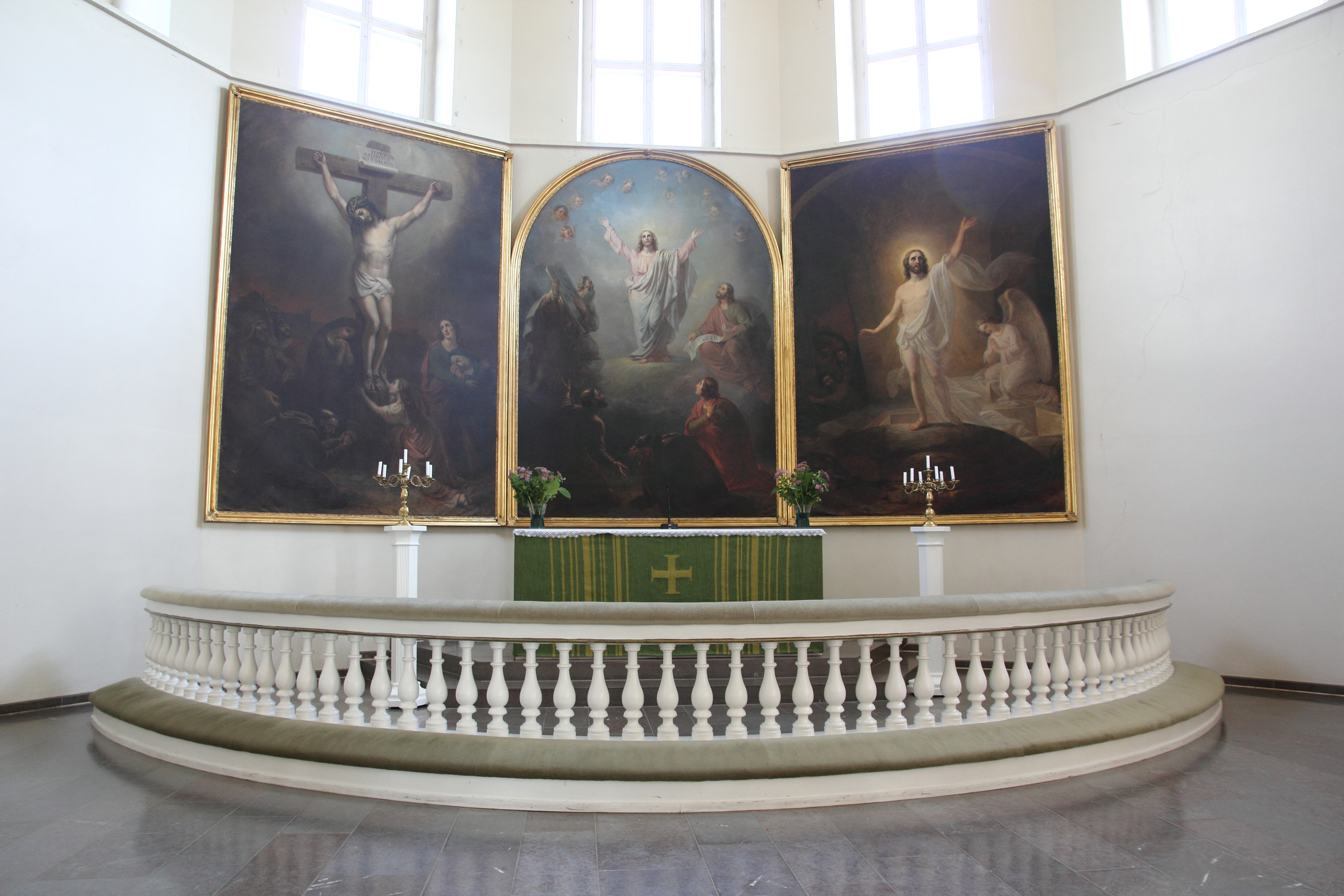 Tyrvää church altar. The three altar paintings are by Robert Wilhelm Ekman (1808-1873).